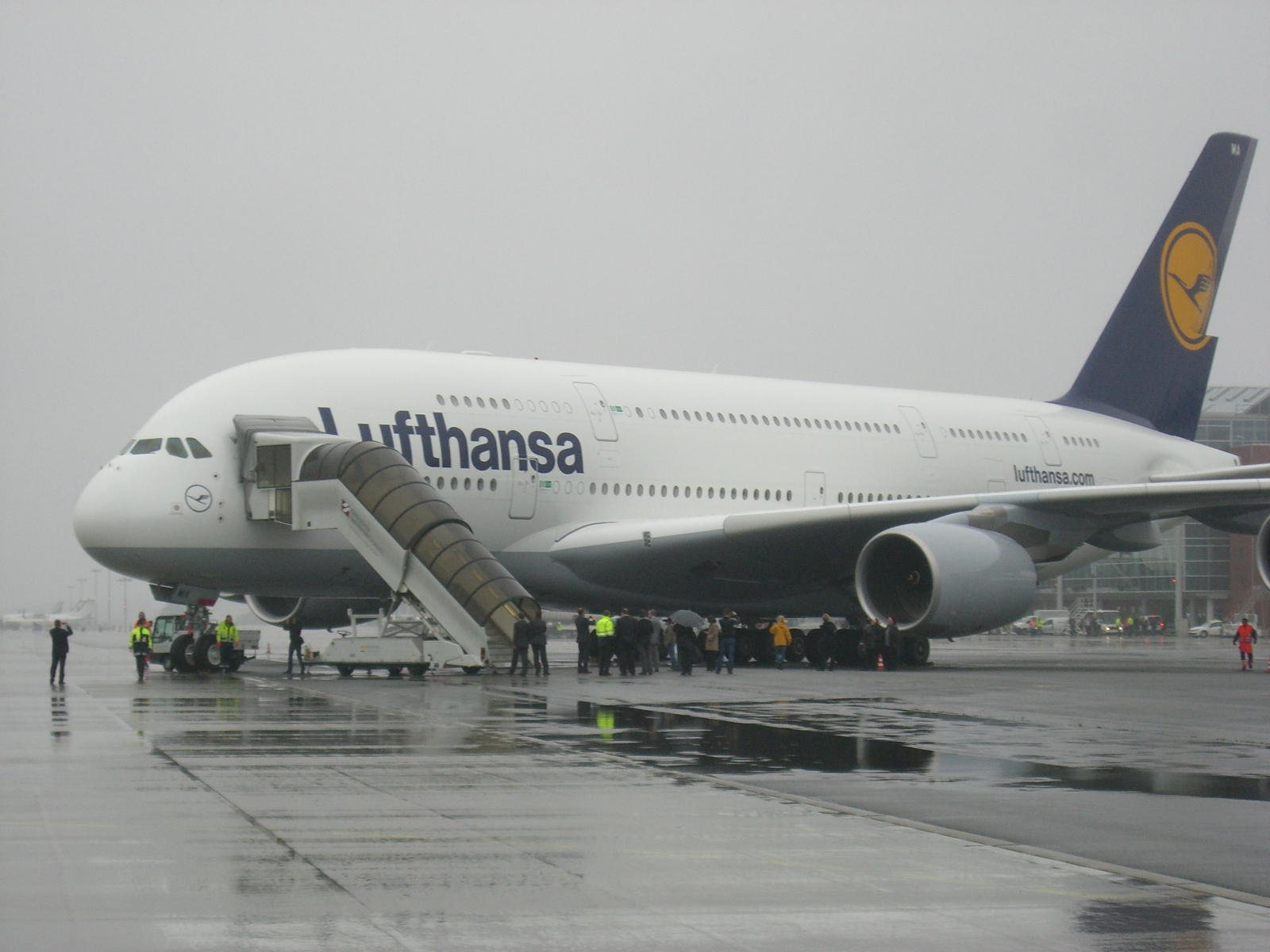 An Lufthansa Airbus A380 at Dresden Airport